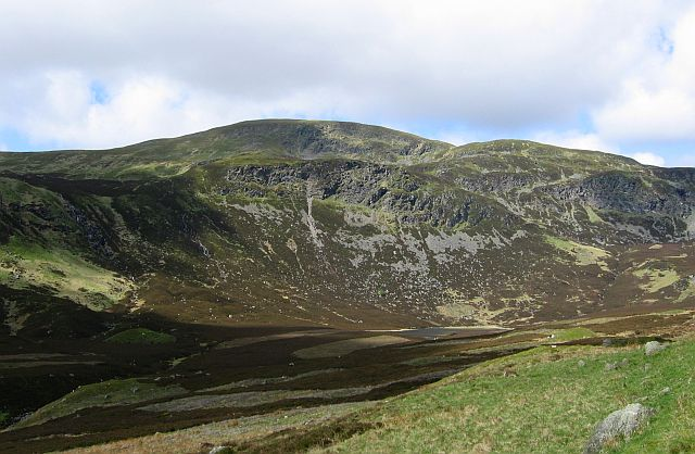 Ben Chonzie The Glen Turret side of the hill, quite craggy and an interesting way up.